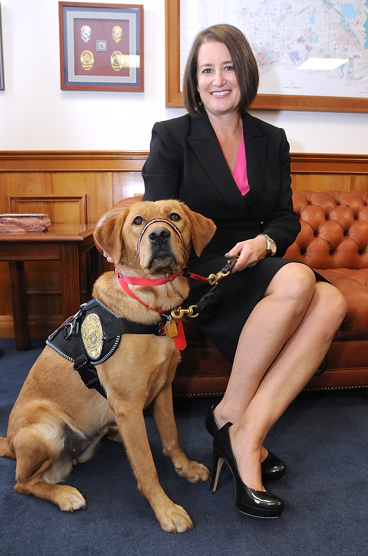 Gene Walsh — The Times Herald Montgomery County District Attorney Risa Vetri Ferman with comfort dog Turks October 22, 2014.